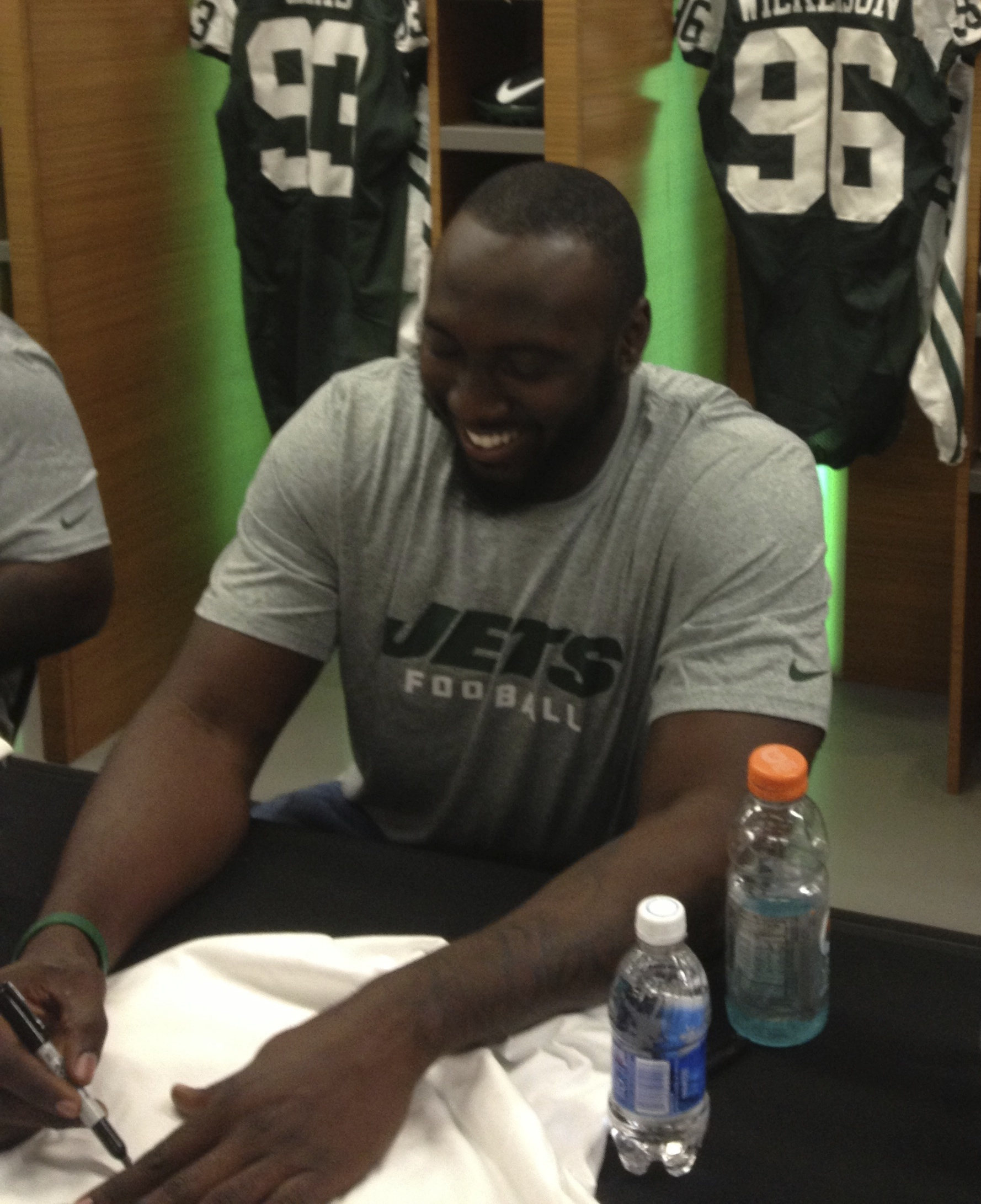 Muhammad Wilkerson signing autographs at the NY Jets Draft Party in the locker room of MetLife Stadium on April 25, 2013.